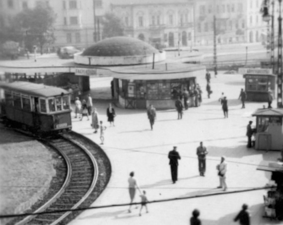 Budapest, Széll Kálmán square in the late 1940s